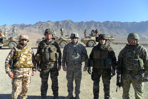 (Left to Right) Lt. Col. Moraru-Apostol, Romanian Army; Lt. Col. Thierry Bourion, French Army, Armor Branch School senior mentor; Maj. Patrick McFall, U.S. Army, forward deployed representative, product manager, Armored Security Vehicle; Lt. Col. Francois Marechal, French Armor Branch School deputy; and, Capt. Robin Davies, British Army, Armor Branch School Training Advisory Group in the ANA Armor Branch School.